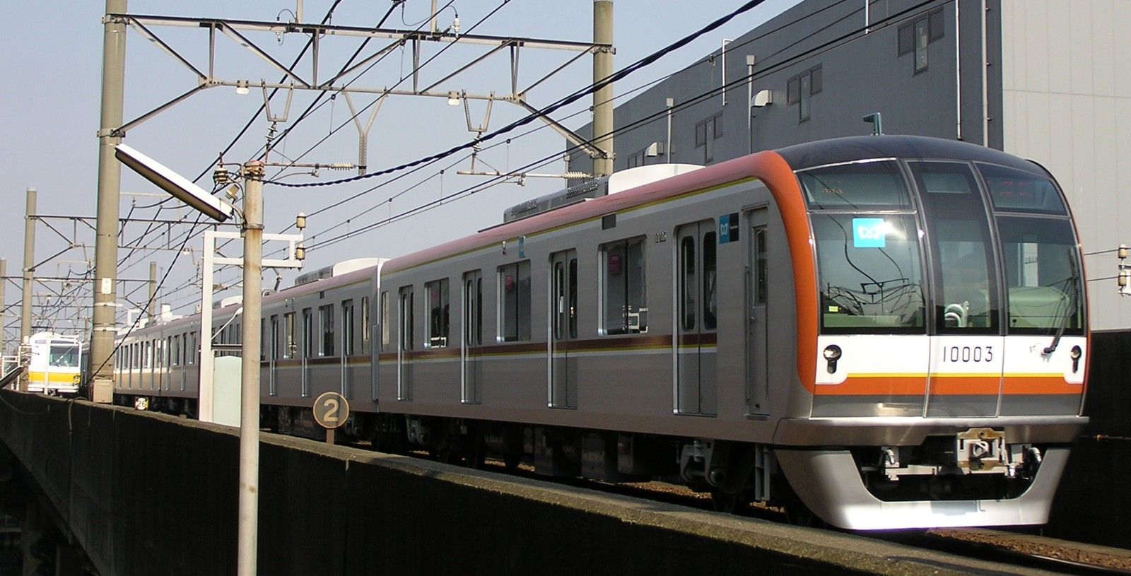 撮影地 Place of photo新木場駅～辰巳駅撮影の状況 How to take公道から撮影 At public roadトリミングの有無 Cropped or notトリミング済み Cropped内容 Description試運転中の10000系10103F